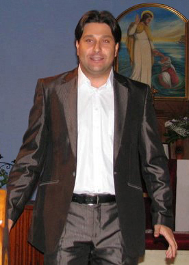 Opera singer Mindaugas Rojus, Nida, Lithuania